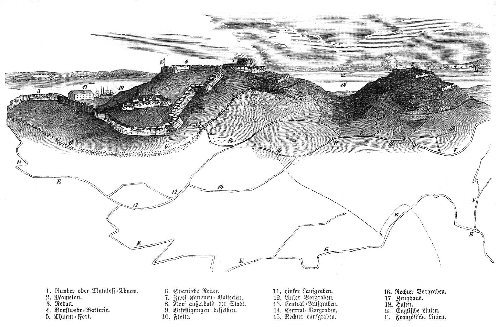 no caption